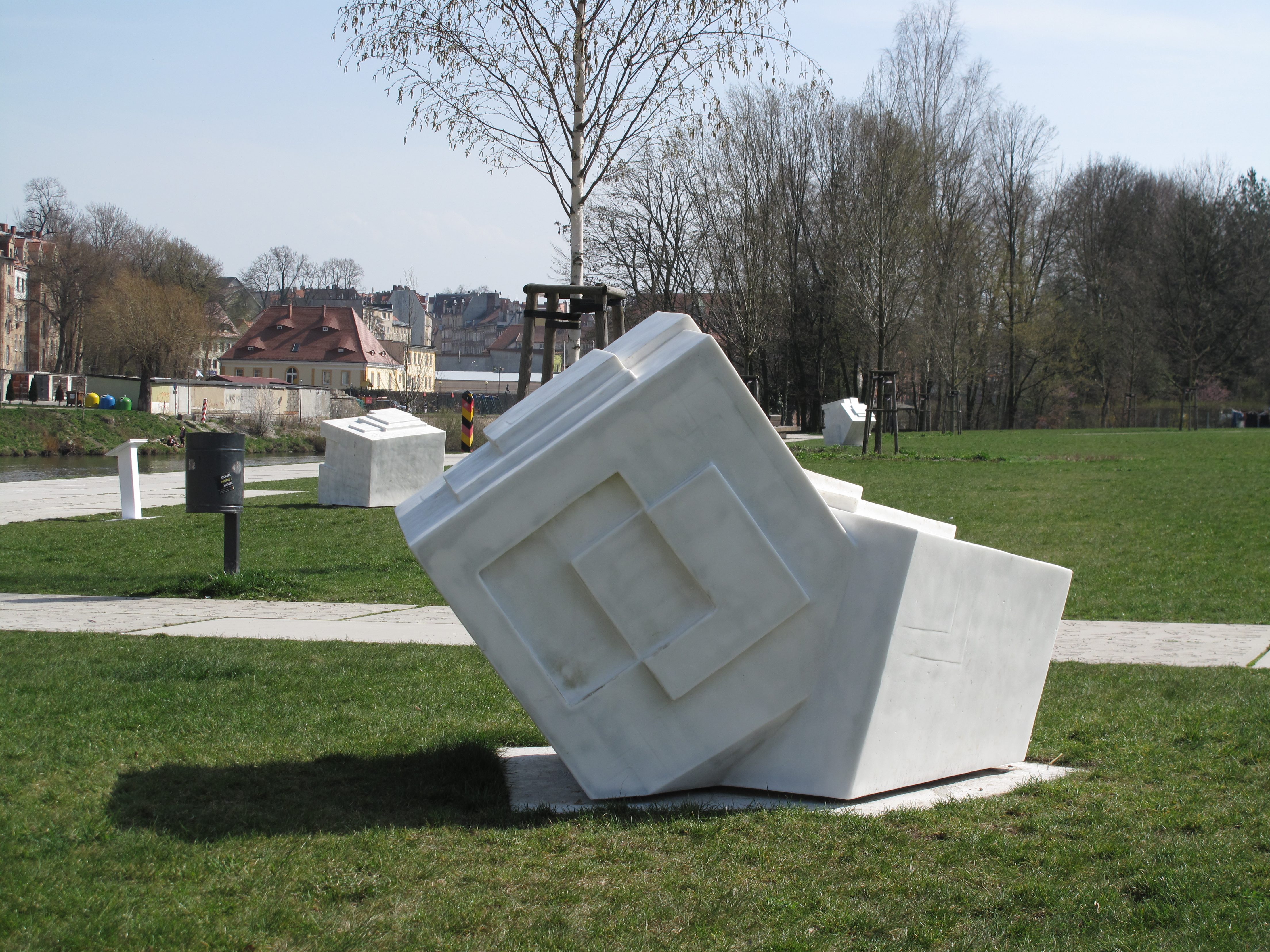 three-piece work of Art "Salt crystals" by Matthias Lehmann as part of Görlitzer ART on a green at the riverside of the Neisse river in Görlitz